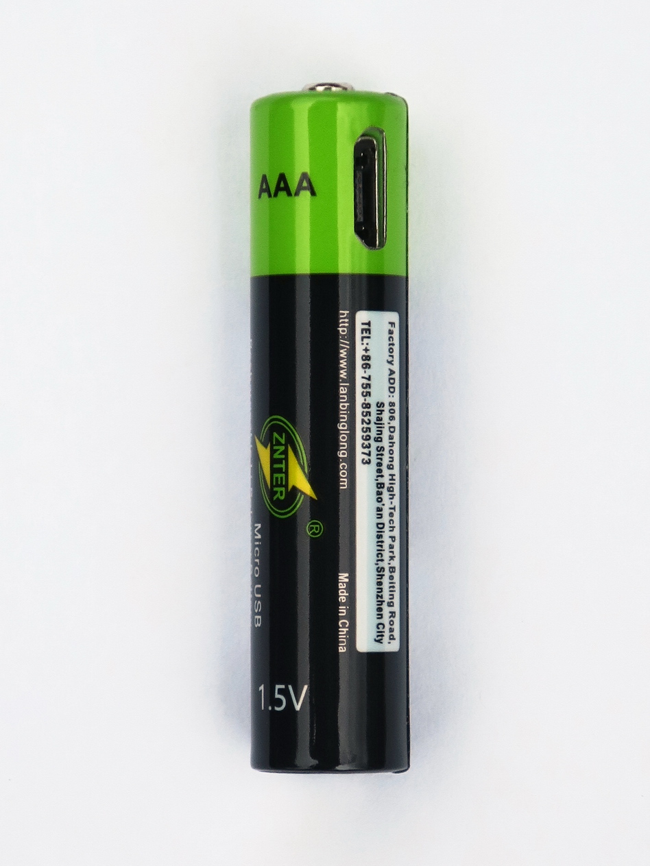 This battery is a complex product. It contains a 3.7 V Li-ion battery, a microUSB charging port, a charge controller and a 3.7 V to 1.5 V step down Converter output.